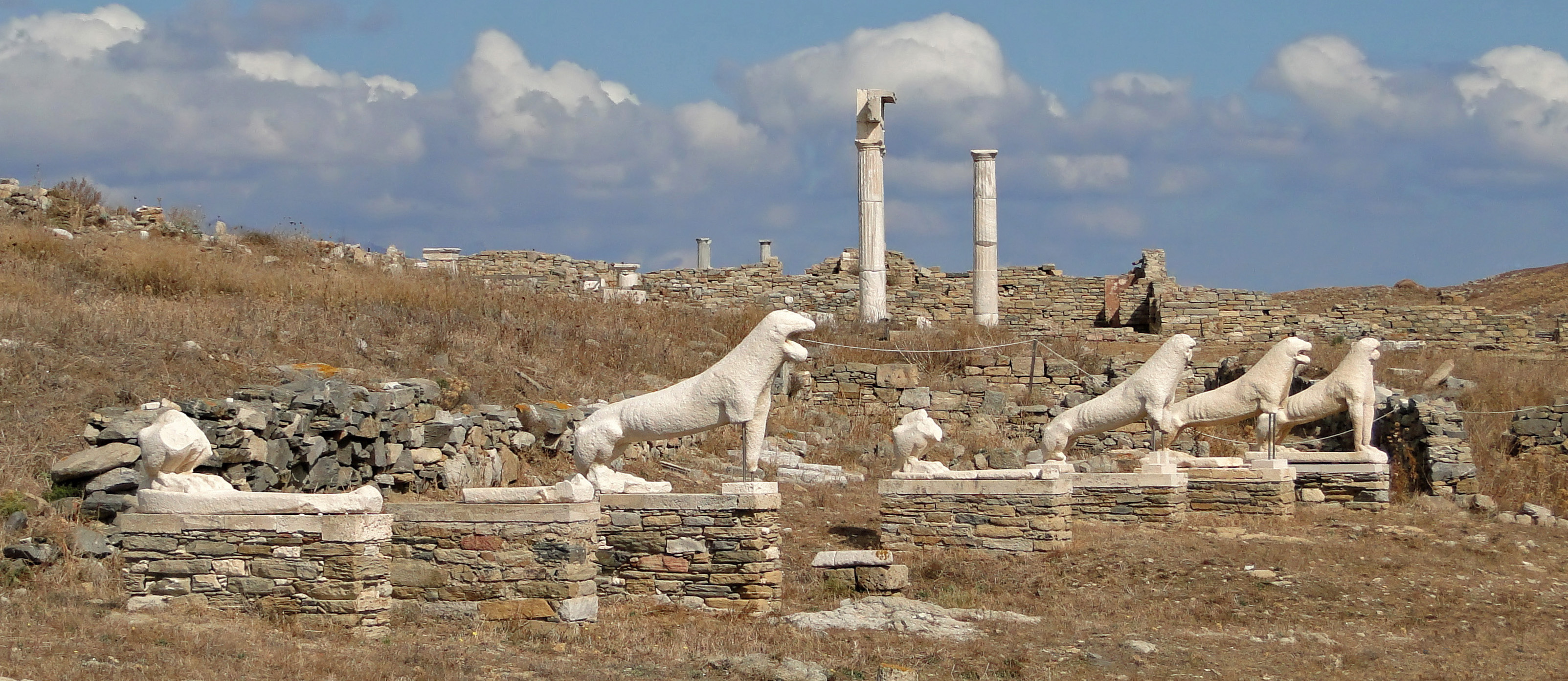 Terrace of the Lions in Delos, Greece